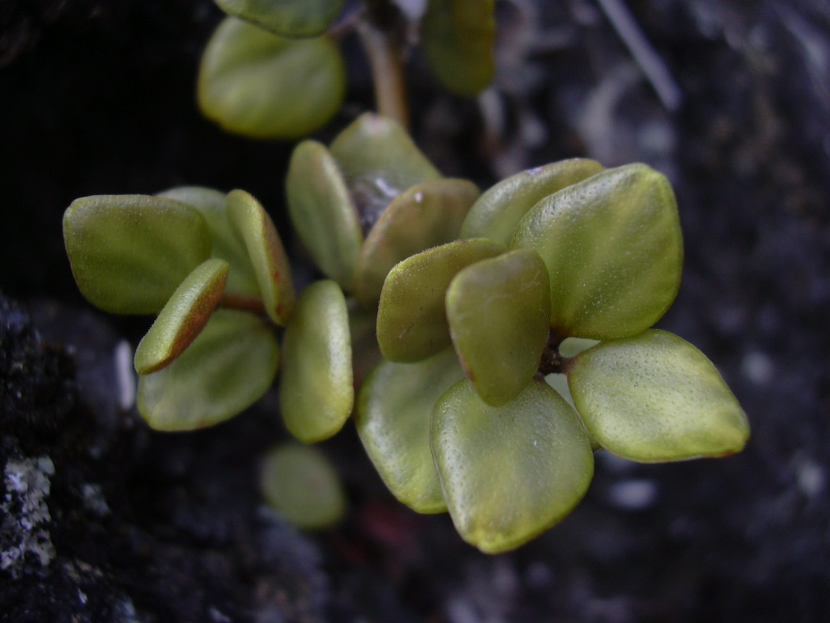 Peperomia tetraphylla (habit). Location: Maui, Auwahi